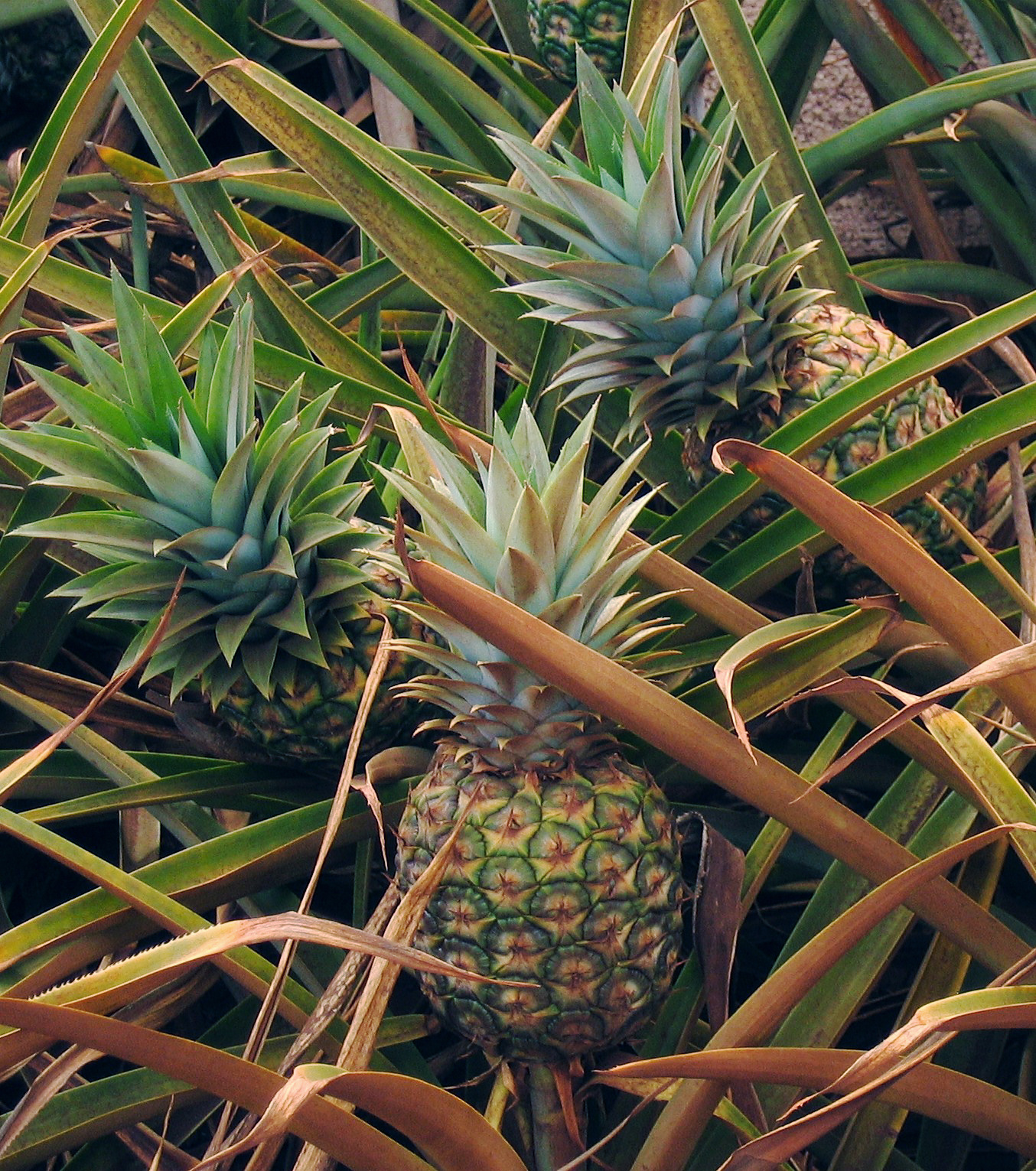 Pineapple plant on Ohau, Hawaii